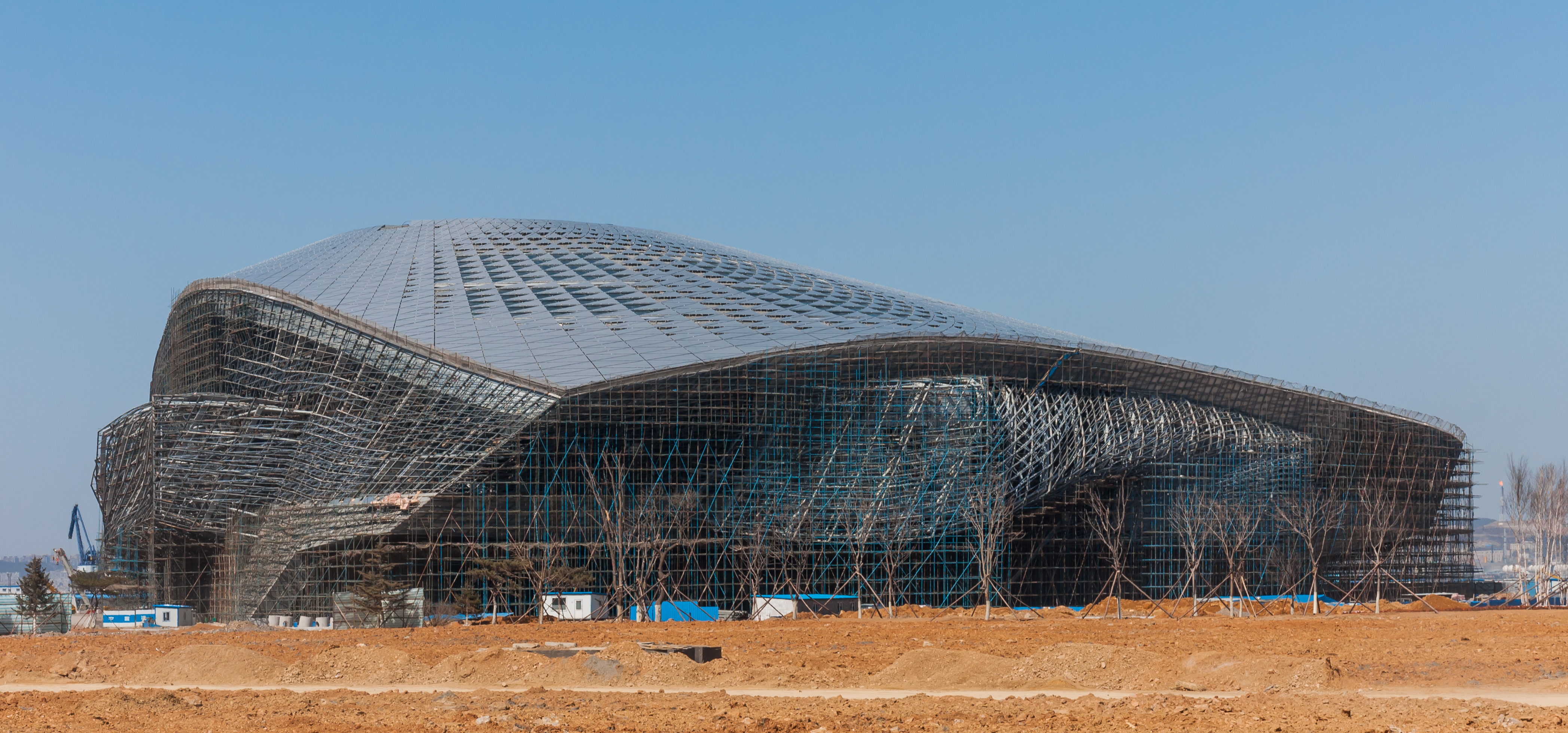 Dalian, Liaoning, China: Dalian International Conference Center during the construction phase; Architects: Coop Himmelb(l)au Design Principal: Wolf D. Prix Project Partner: Paul Kath (until 2010), Wolfgang Reicht Project Architect: Wolfgang Reicht Design Architect: Alexander Ott Design Team: Quirin Krumbholz, Eva Wolf, Victoria Coaloa Area: 117,650 sqm Year: 2012